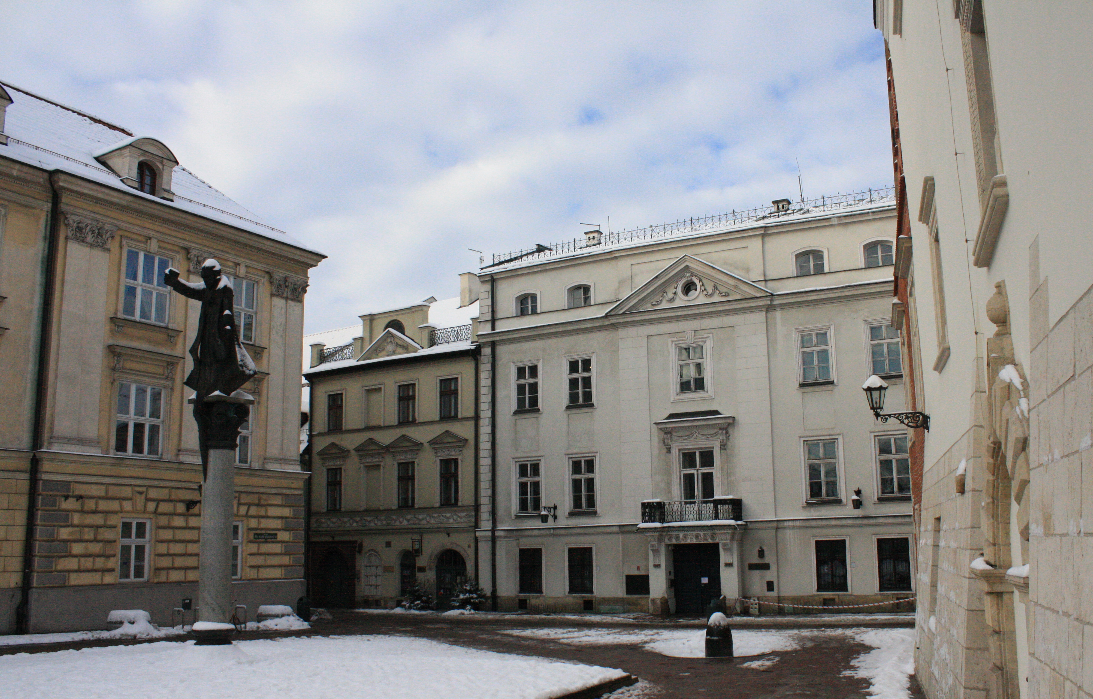 Kanonicza 9 - Administration UPJPII